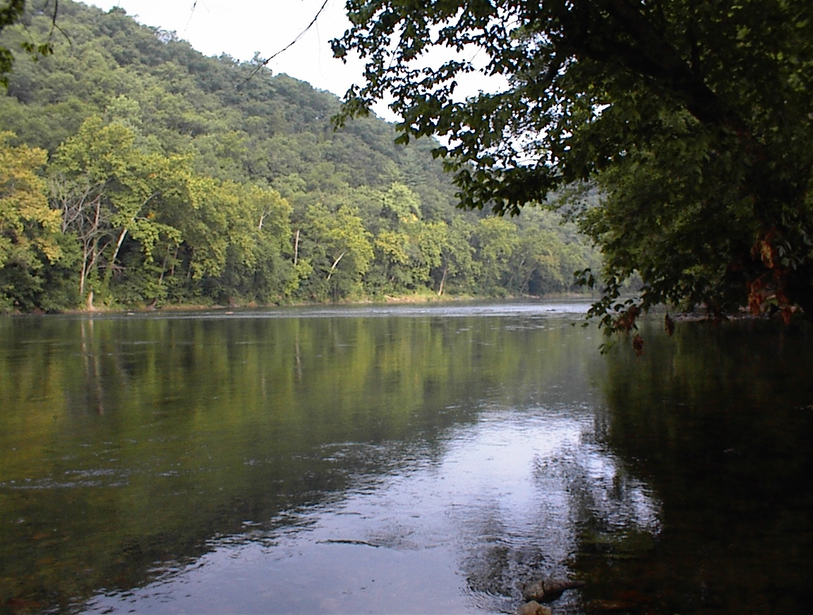 View of Shenandoah River. South of Front Royal Virginia. Map coordinates are approximate.